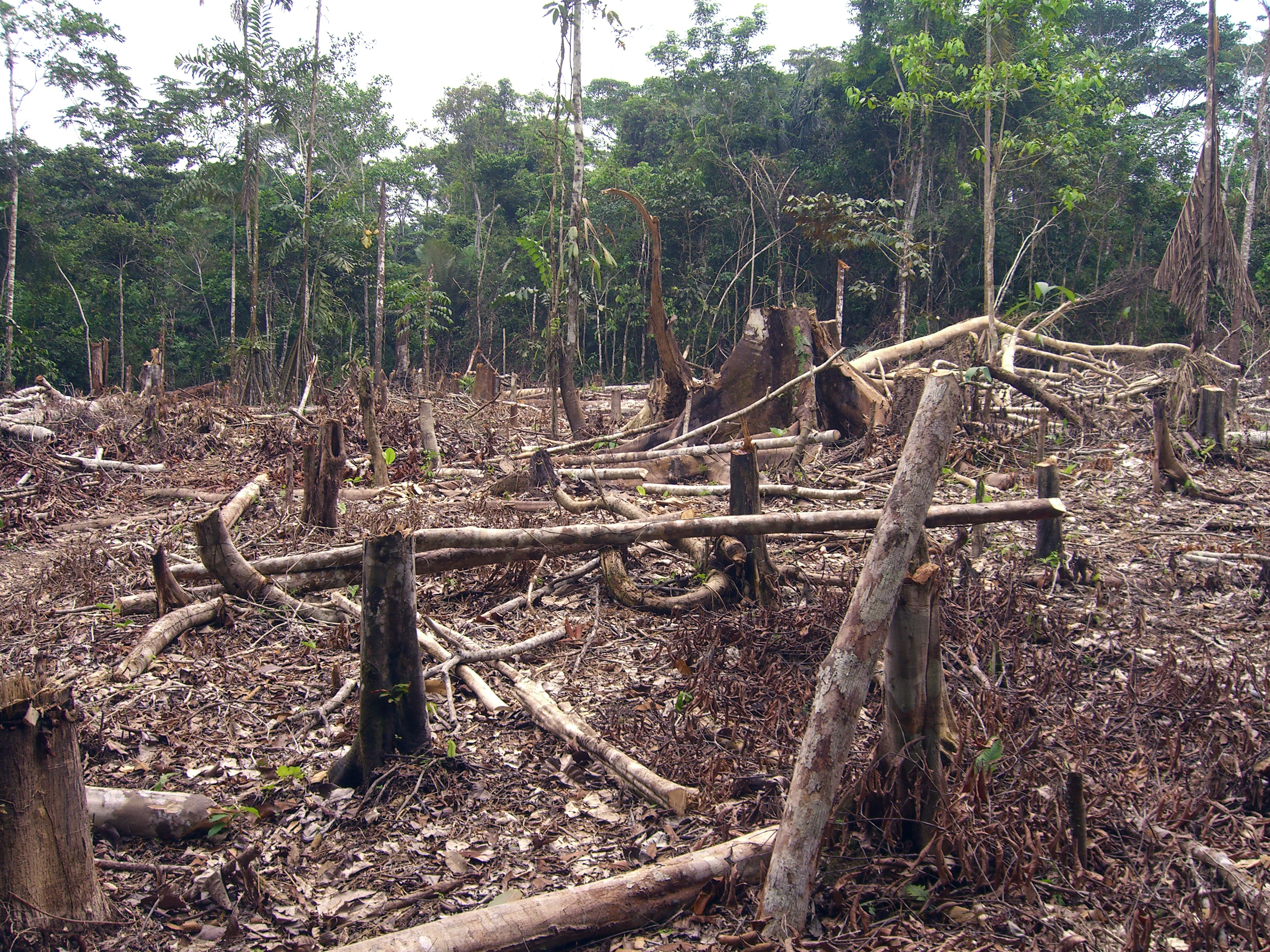 shift cultivation in Colombia